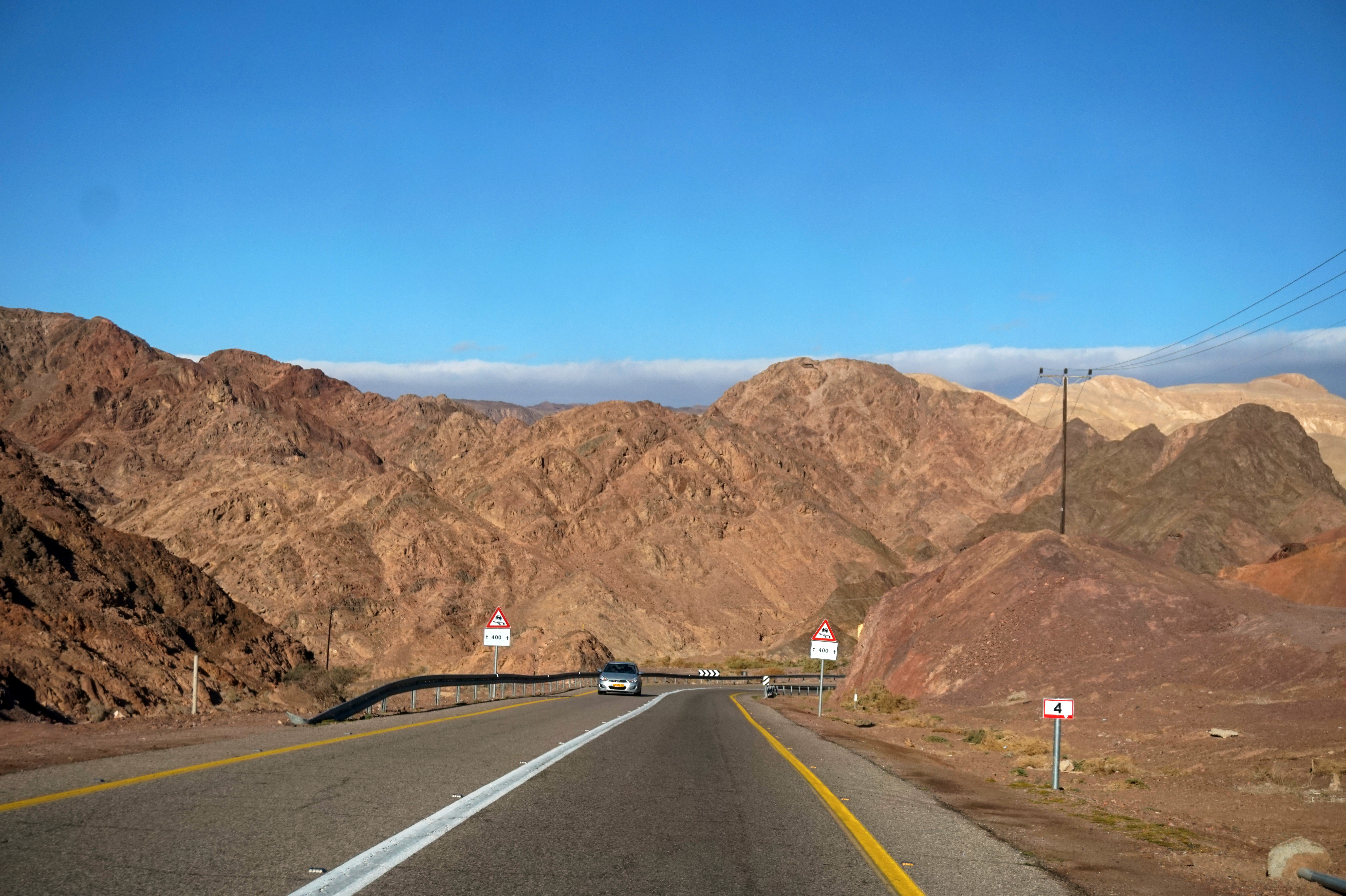 The road 12 in Israel. View is between Eilat and Red Canyon.This photograph was taken with a Sony ILCE-5000